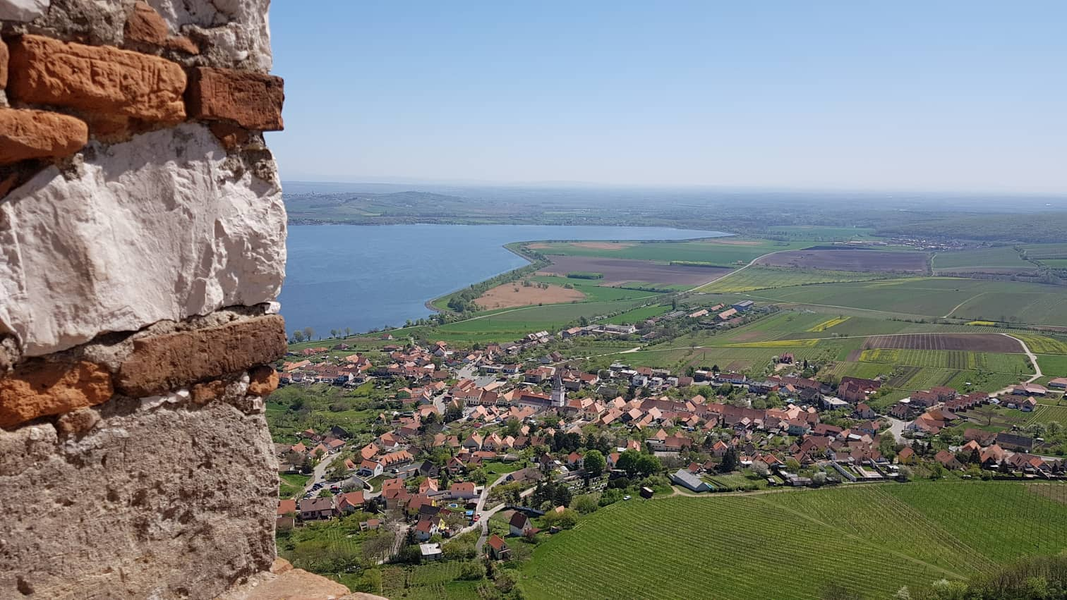 The view from castle Devicky on the water reservoir Nove Mlyny